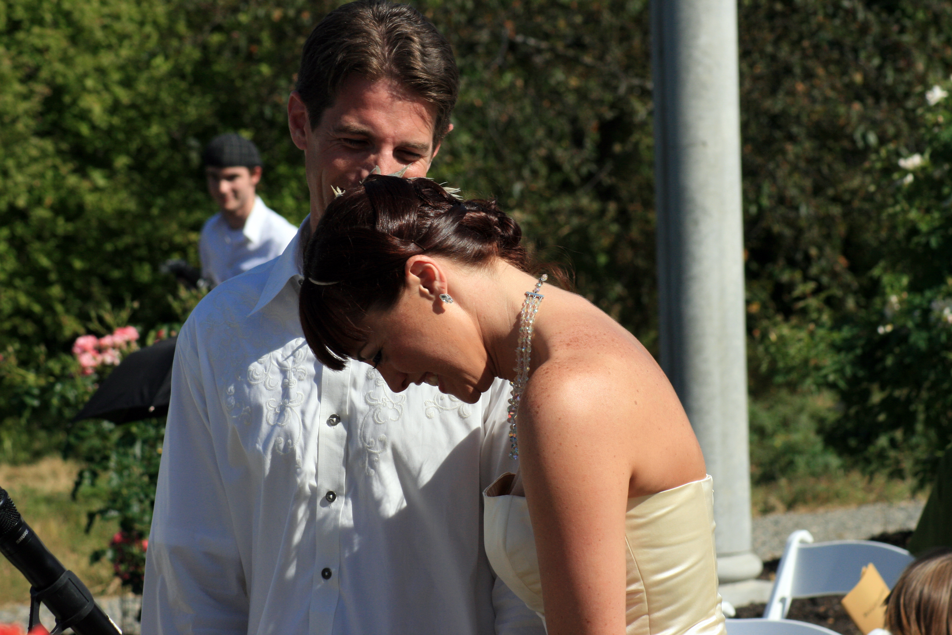 Slightly embarrassed couple